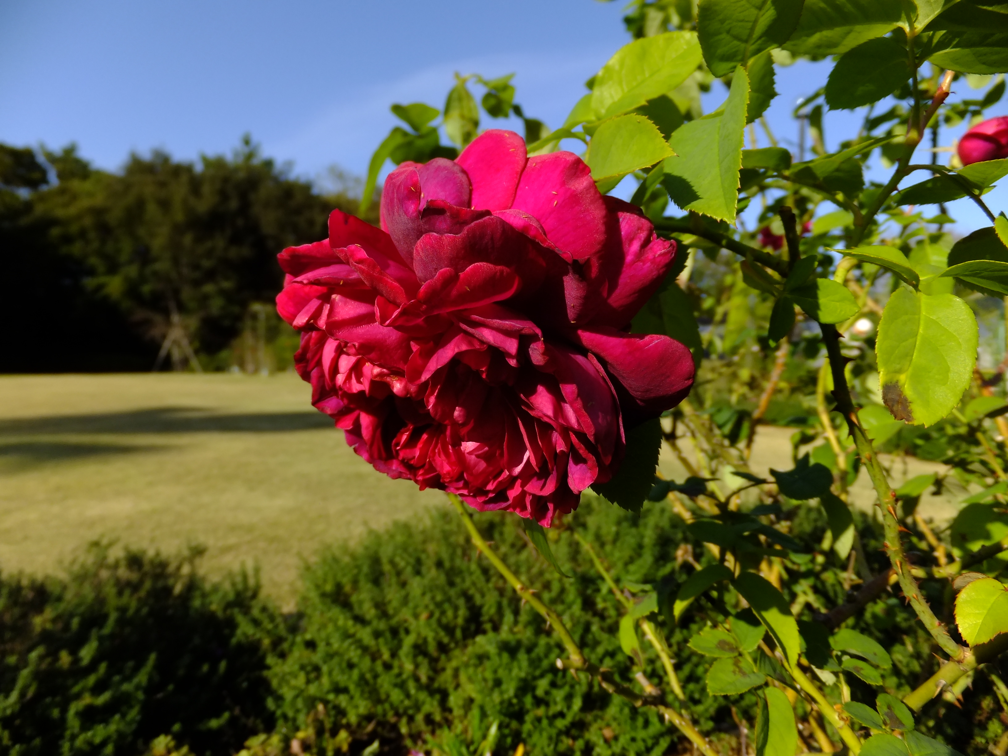 Rosa 'The Dark Lady' in the Chiba City Floral Museum; Chiba City, Japan.